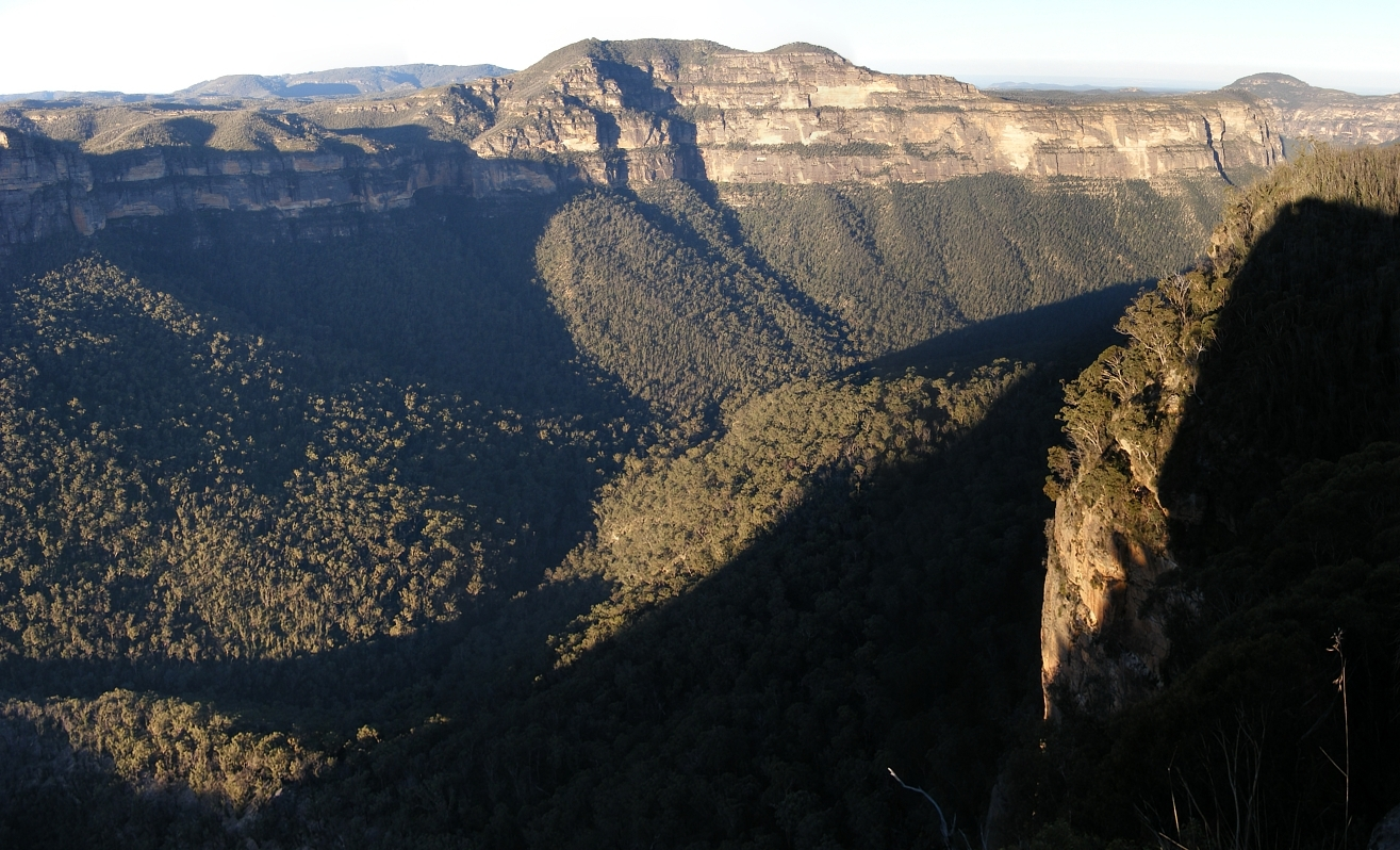 This was taken along the grand canyon walk in the blue mountains commencing at the evans looks. Cheers brothers